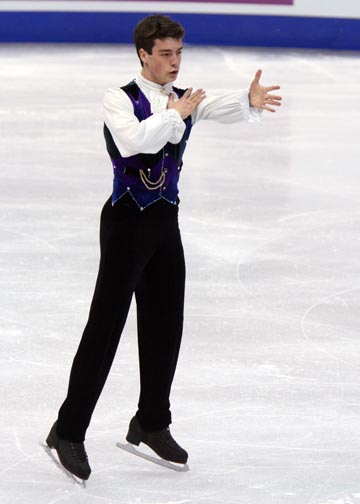 Brandon Mroz at the 2008 Skate Canada.